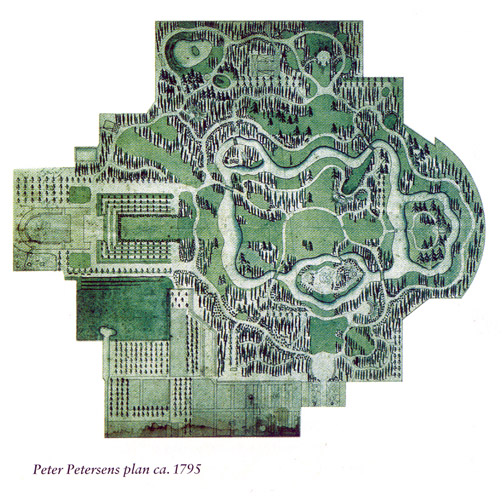 Plan of the Romantic landscape garden in Frederiksberg Have in Frederiksberg, Copenhagen, Denmark.